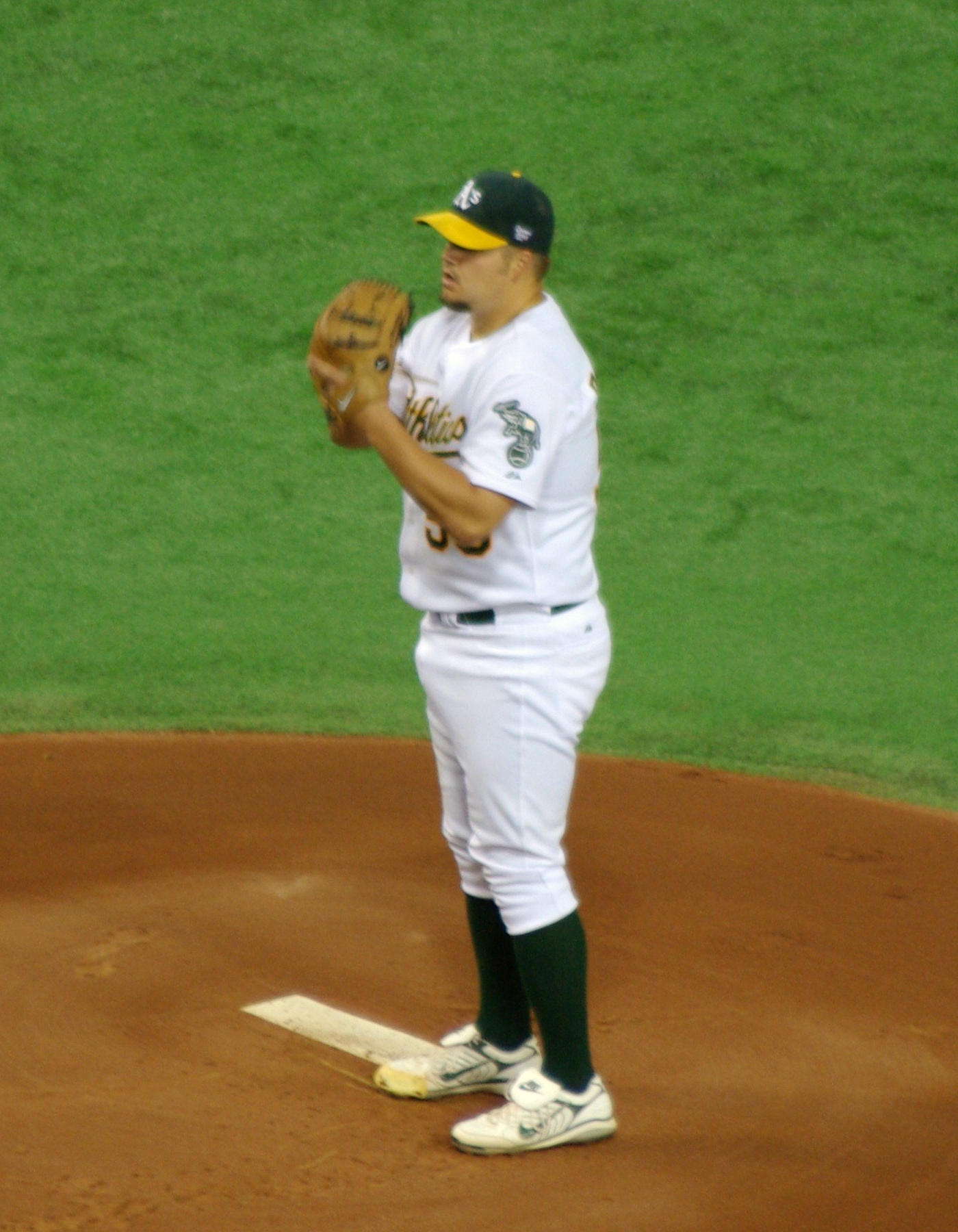 Joe Blanton at the MLB Japan Opening Series 2008